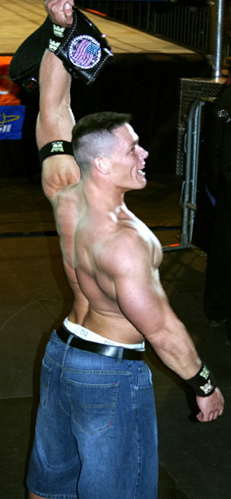 WWE United States Champion John Cena after a match with Kurt Angle during a WWE house show held in Kitchener, Ontario, Canada on January 15, 2005.